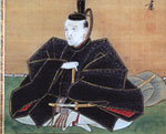 Niwa Nagatsugu, lord of the Nihonmatsu domain.